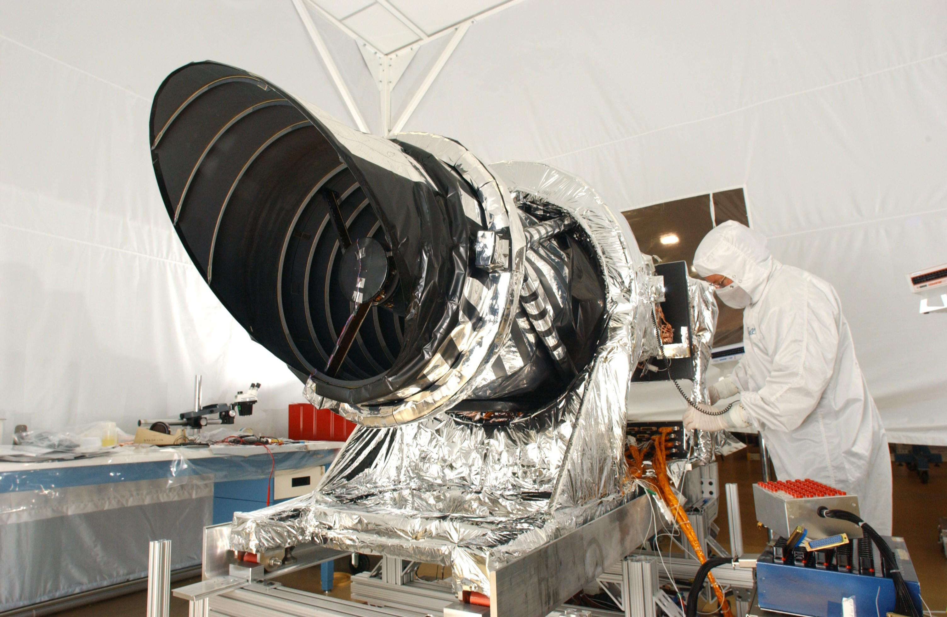 HiRISE camera of the Mars Reconnaissance Orbiter (NASA). Original description: The high resolution imaging science experiment (Hirise) is one of six science instruments for NASA's Mars Reconnaissance Orbiter. The orbiter is scheduled for launch in August 2005. This instrument is designed to produce the most detailed pictures of Mars ever taken from orbit, revealing surface details as small as a meter (3 feet) across. In this photograph, a worker at Ball Aerospace and Technology Corp., Boulder, Colo., prepares the instrument before it is shipped for attachment to the spacecraft